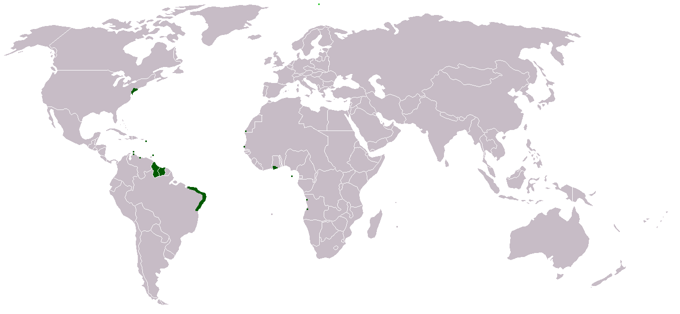 dominion of WIC